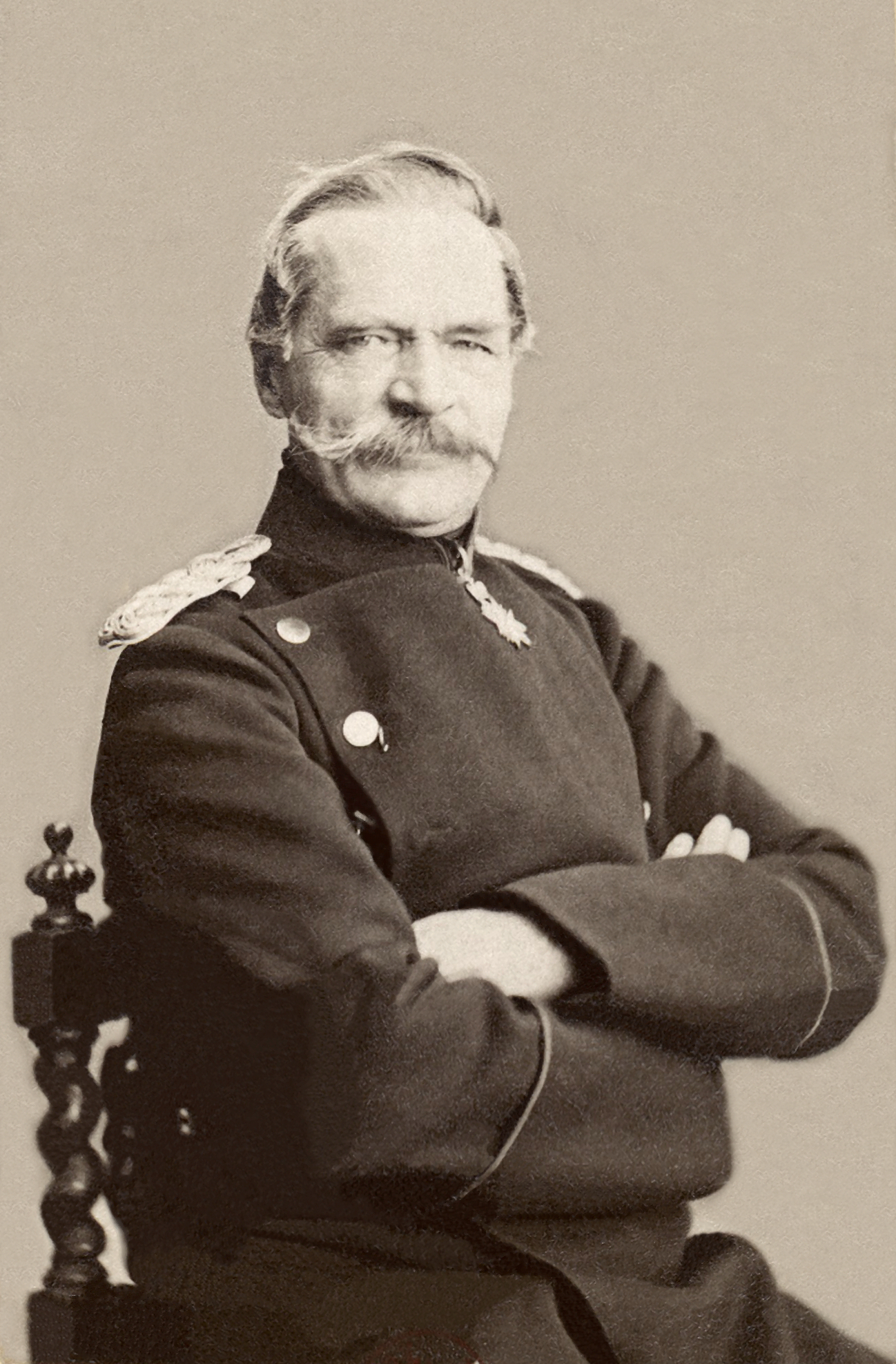 Count Albrecht Theodor Emil von Roon (1803-1879), circa 1870